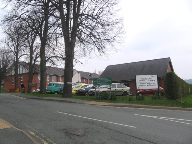 Welshpool Hospital entrance